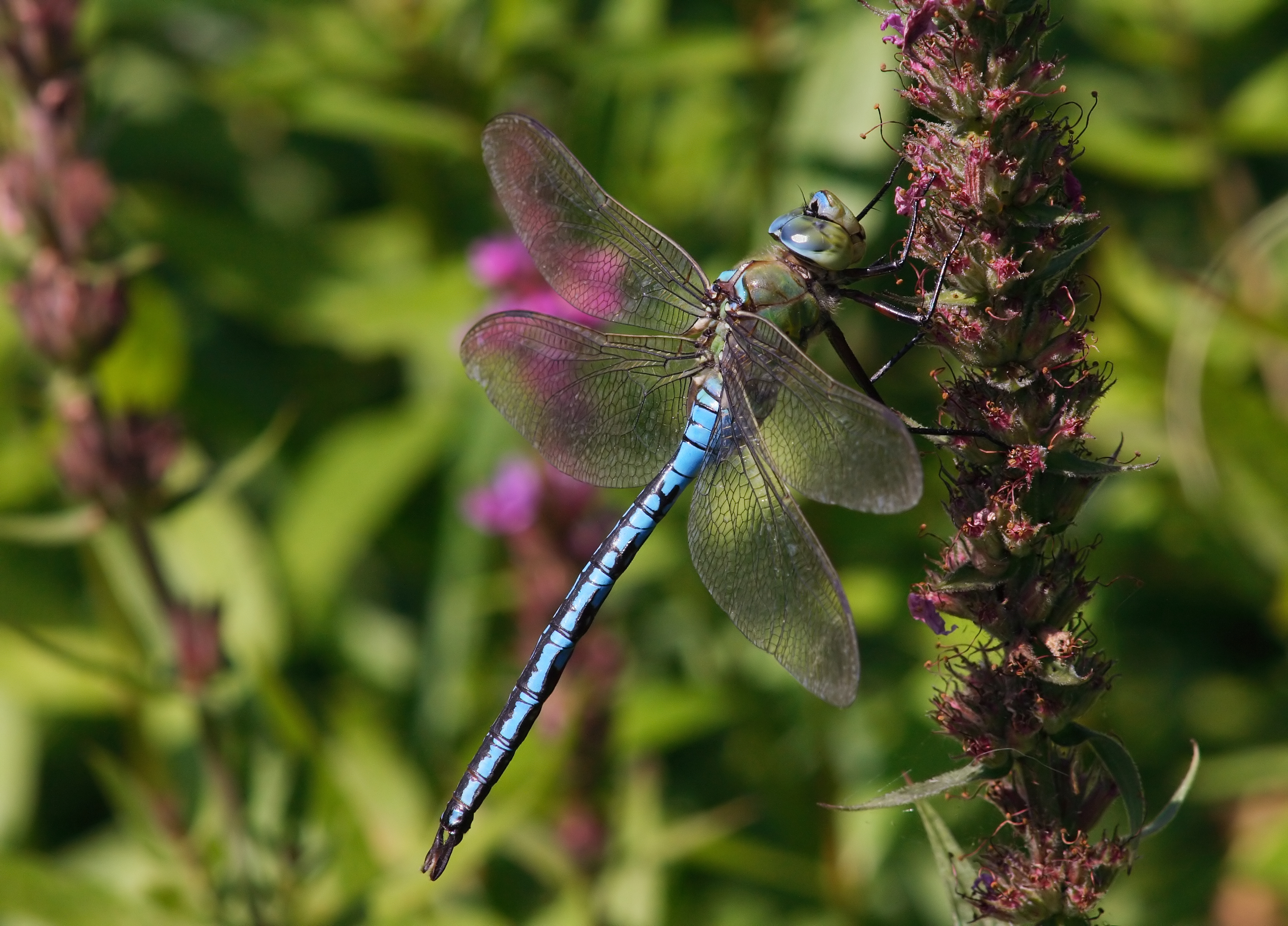 Male Emperor (Anax imperator) in Planten un Blomen, Hamburg, Germany